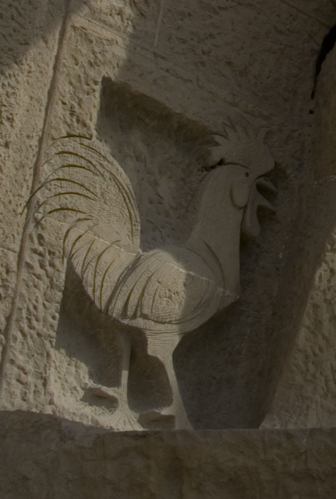 Barcelona - La Sagrada Família - Passion Façade - View East on Crowing Cock